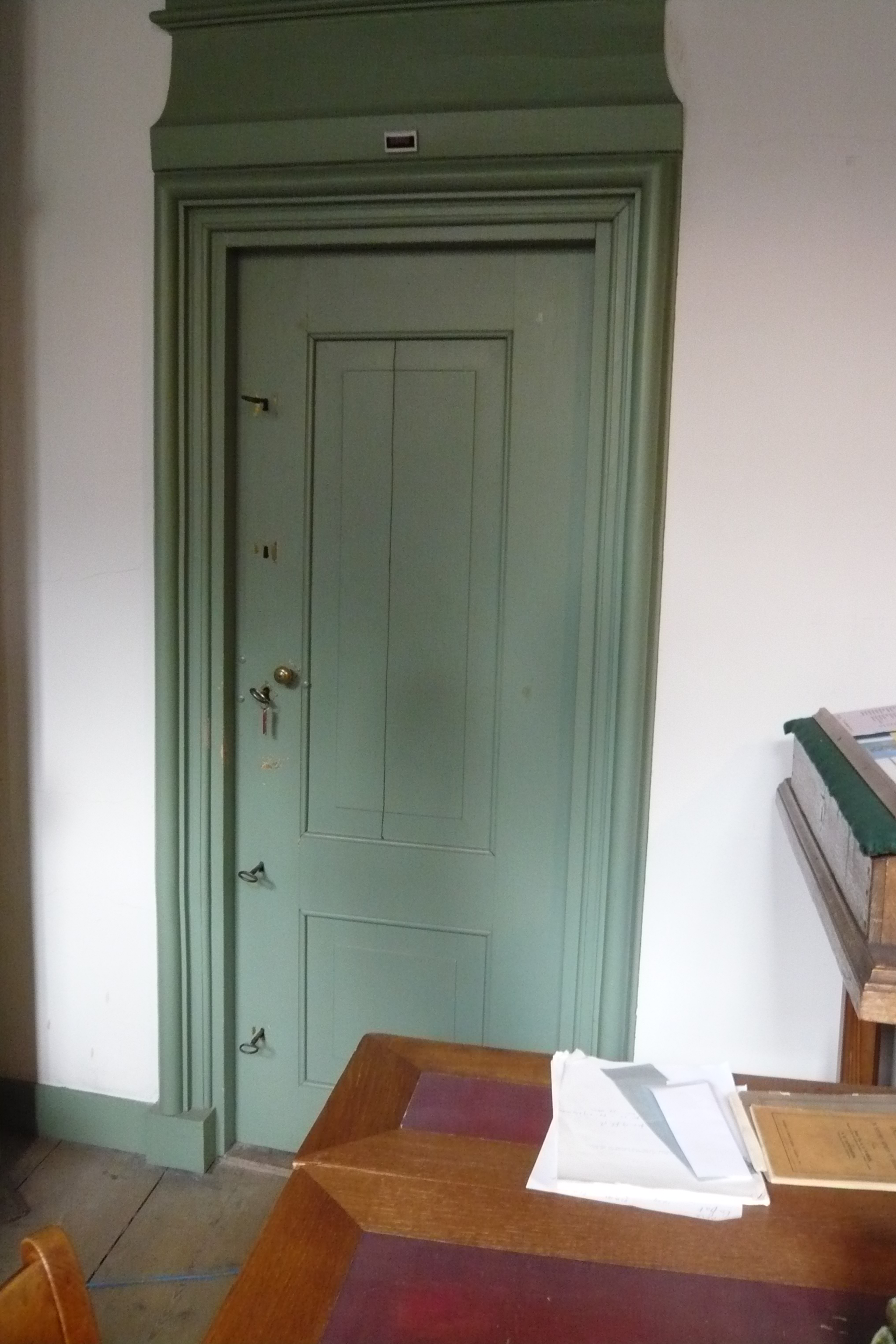 Photo of Pieter Teyler's office (comptoir) in Teyler's Fundatiehuis, Damstraat, Haarlem